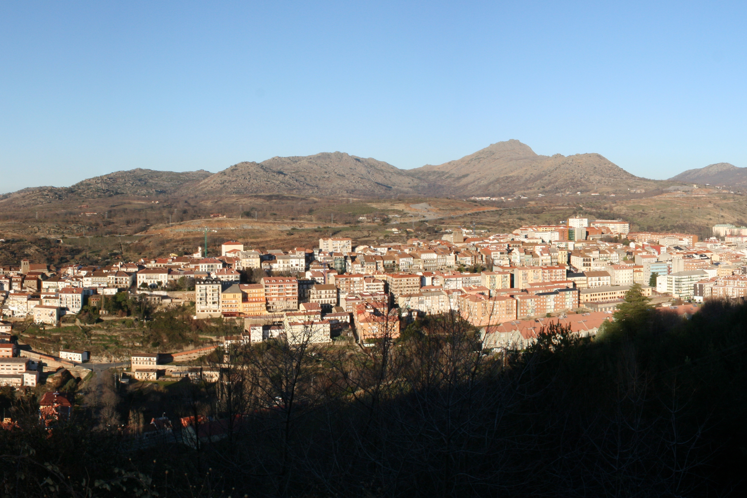 Cropped version of File:Béjar.jpg